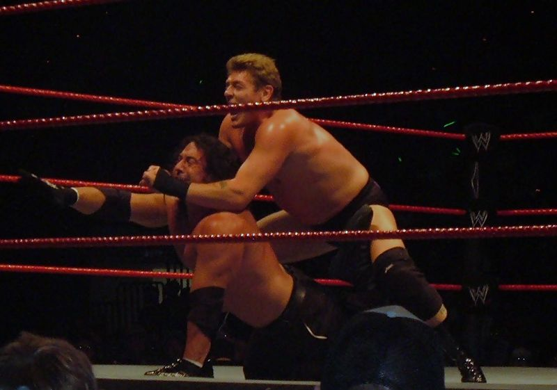 This is a picture I took at a WWE RAW House show in College Station, Texas on June 23, en:2007. The picture shows William Regal (top) attempting to restrain Chuck Palumbo (bottom). Incidently, Palumbo won the match. --Naha